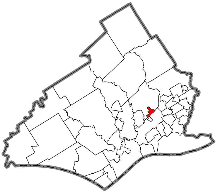 Showing the location within Delaware County, Pennsylvania.